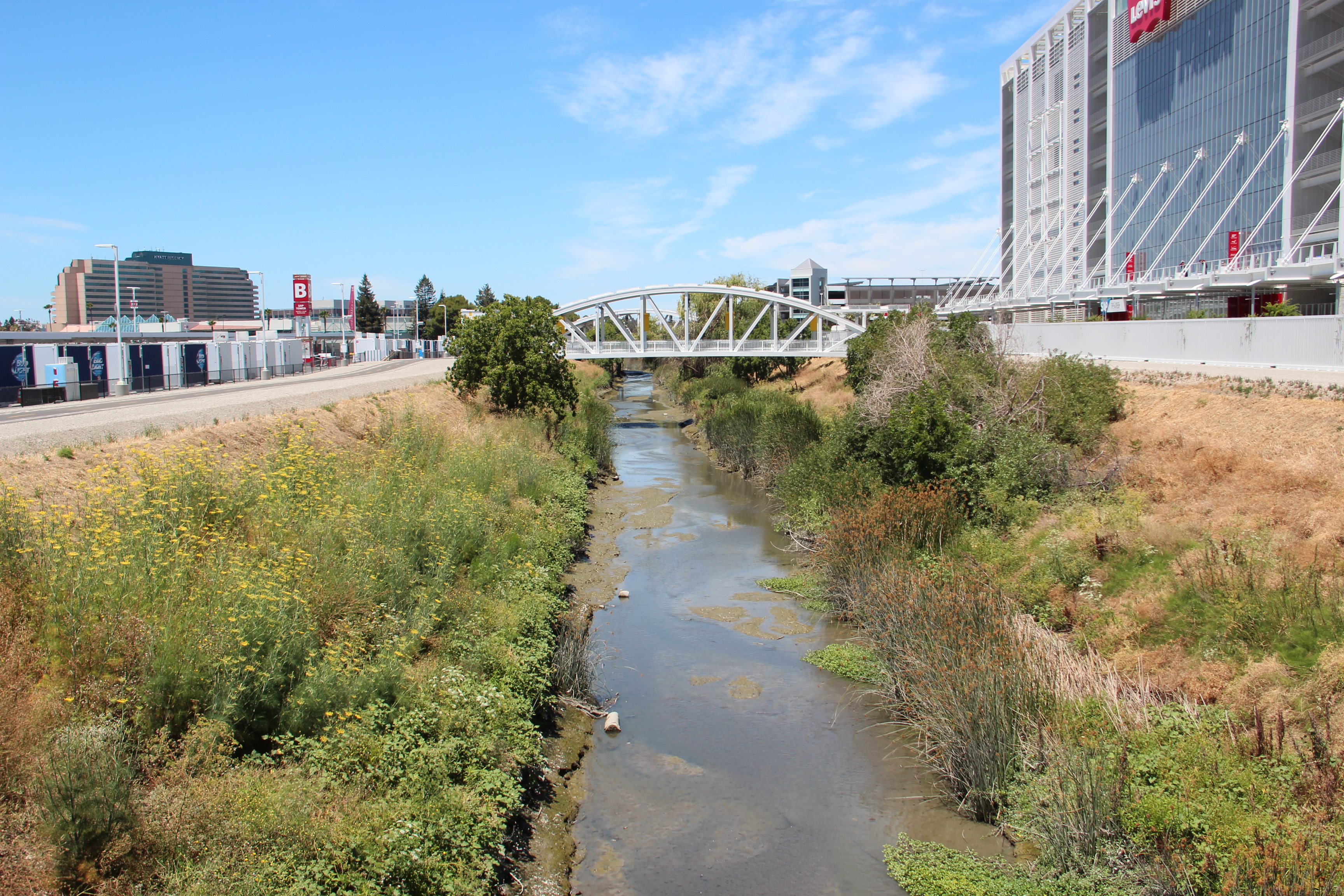 San Tomas Aquino Creek near Levi's Stadium, 2015